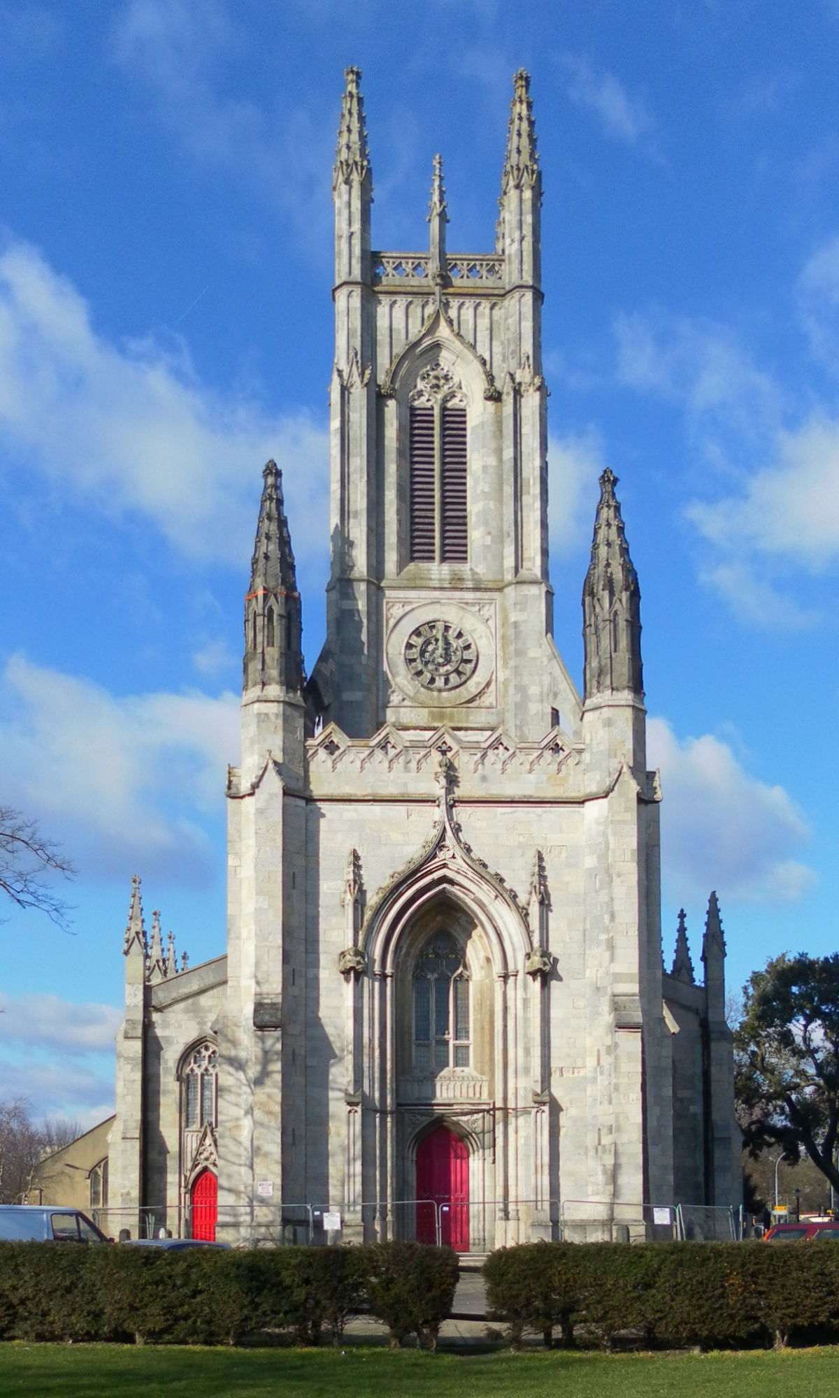 St Peter's Church, York Place, Brighton, City of Brighton and Hove, England. Listed at Grade II* by Historic England (NHLE Code 1380903)